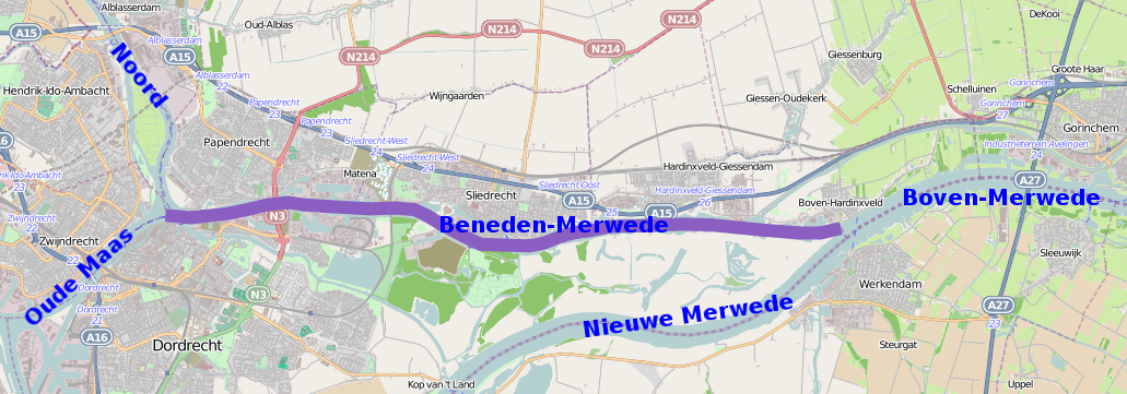 Beneden-Merwede, Netherlands location map